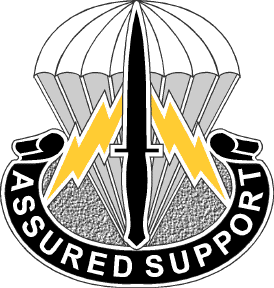 Image of Special Operations Support Command crest